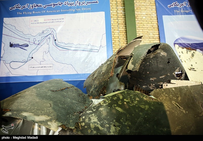 Presentation of carcasses of Northrop Grumman MQ-4C Triton overthrown by IRGC- 21 Jun 2019